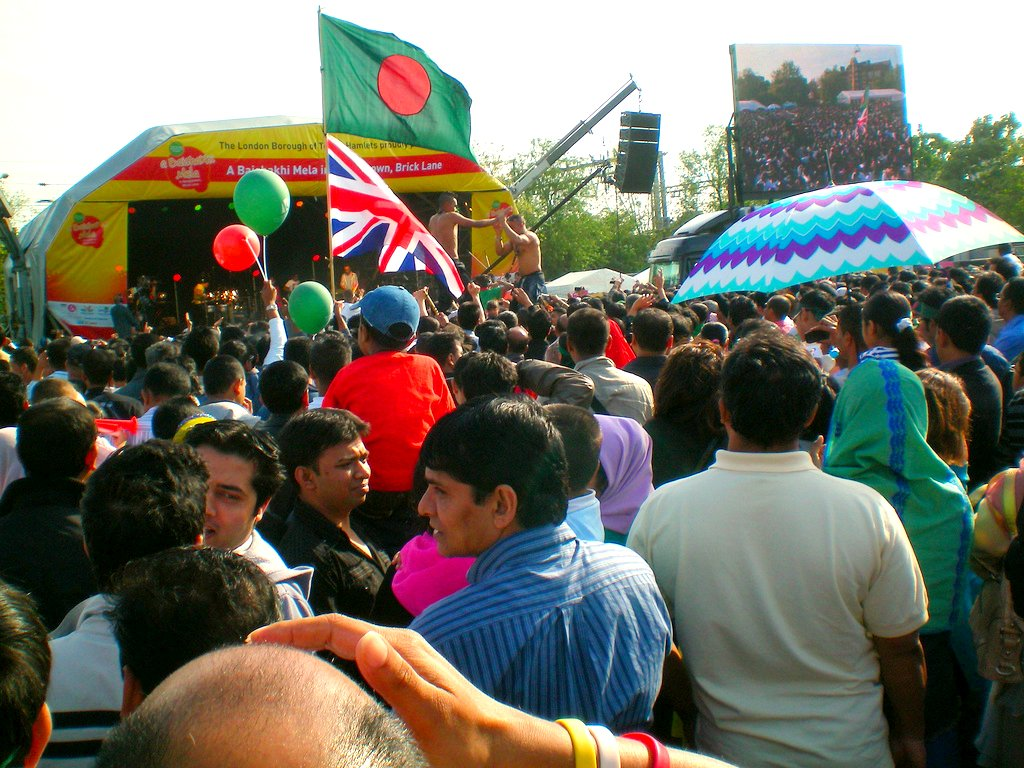 Crowds watching the performance on the stage, with dancing youths, at the Mela.